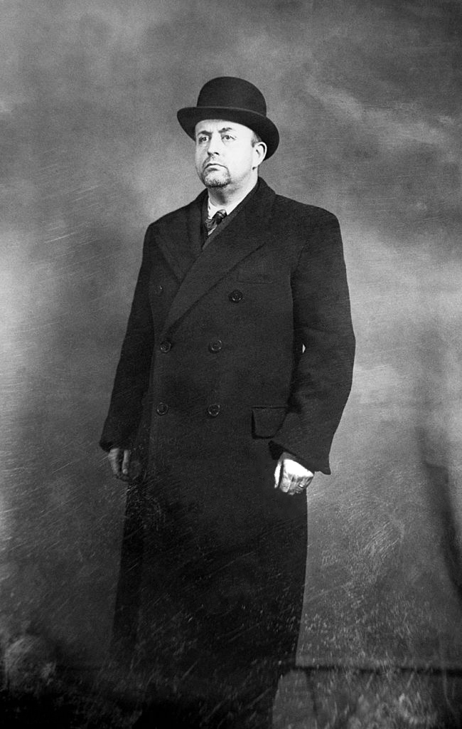 Eugene Deloncle Co-Founder of la Cagoule in 1937.